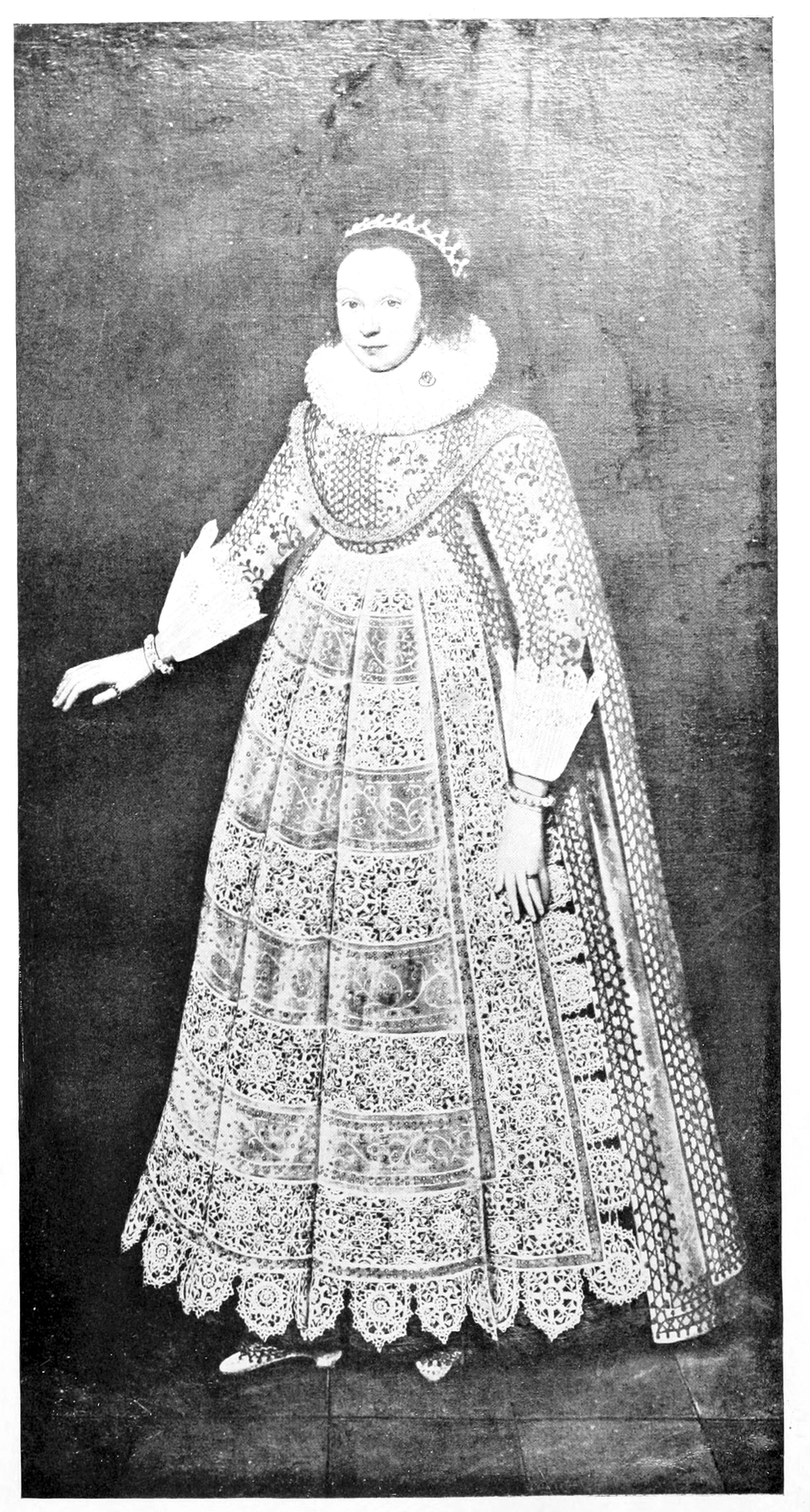 Frontispiece. Anne, Daughter of Sir Peter Vanlore, Kt. & first wife of Sir Charles Cæsar, Kt., about 1614. The lace is probably Flemish, Sir Peter having come from Utrecht.